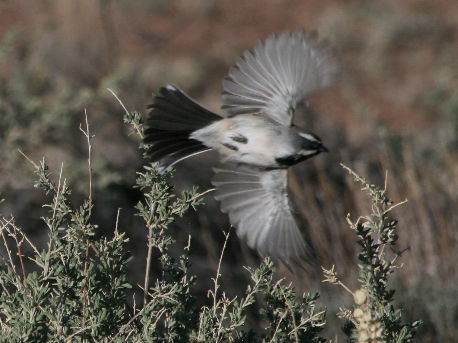 Black-throated Sparrow (Amphispiza bilineata) - Arizona